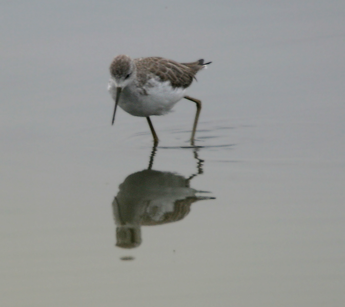 Marsh Sandpiper Tringa stagnatilis in Hyderabad, India.